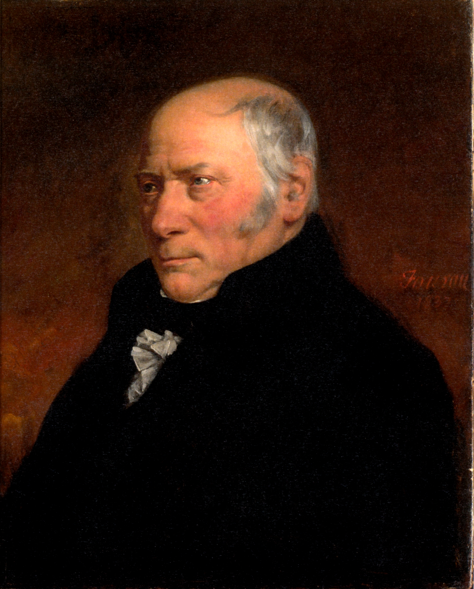 English geologist William Smith (1769-1839), portrait by French painter Hugues Fourau (1803-1873)